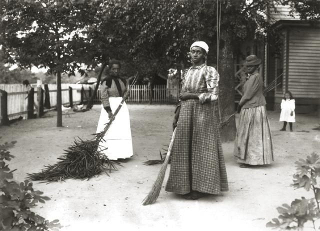 Women with brooms of bambusa. Taken in Belton, South Carolina, United States.